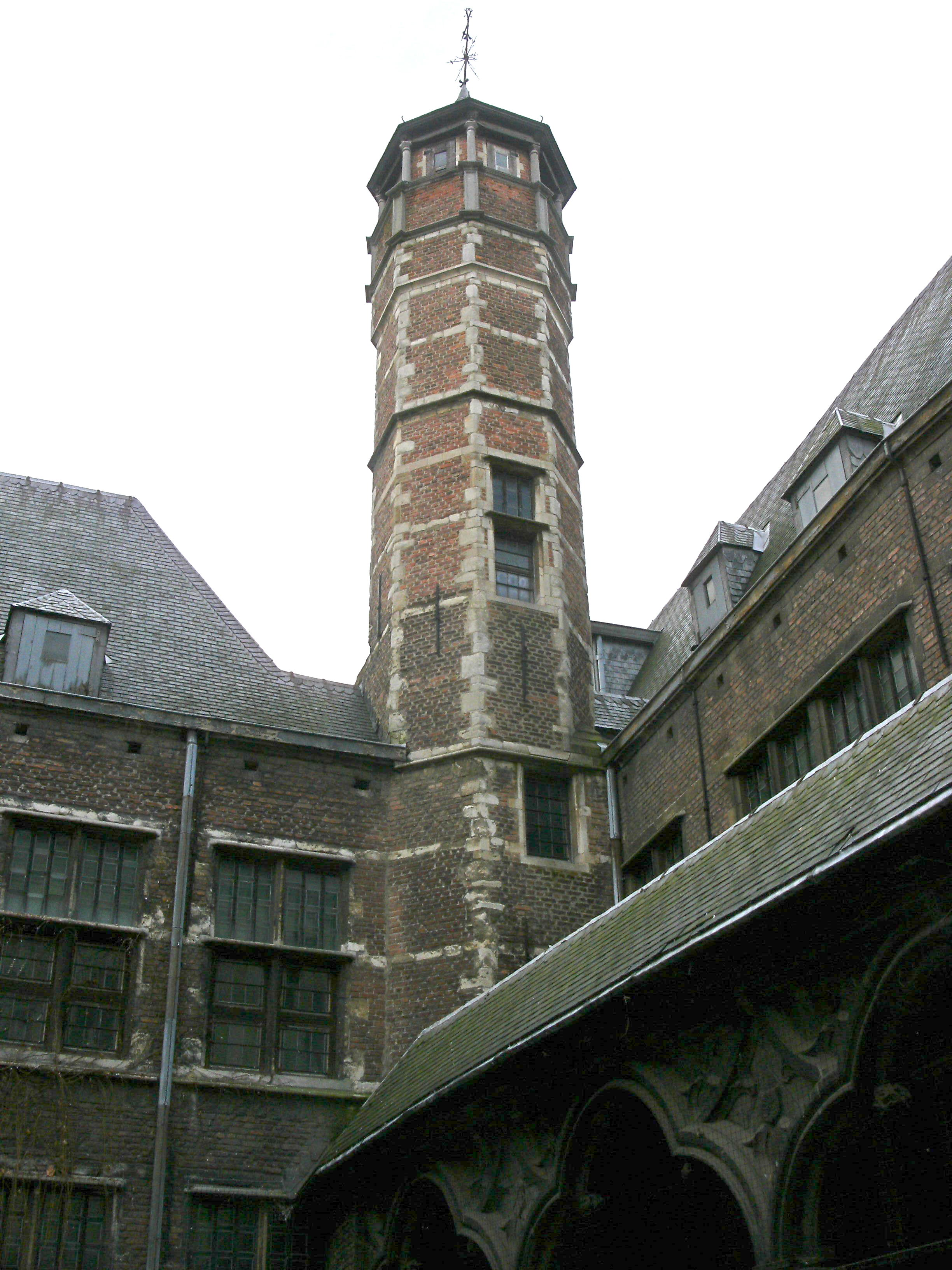 Padagger tower Antwerpen Old Exchange building at Hofstraat 15 Antwerpen.